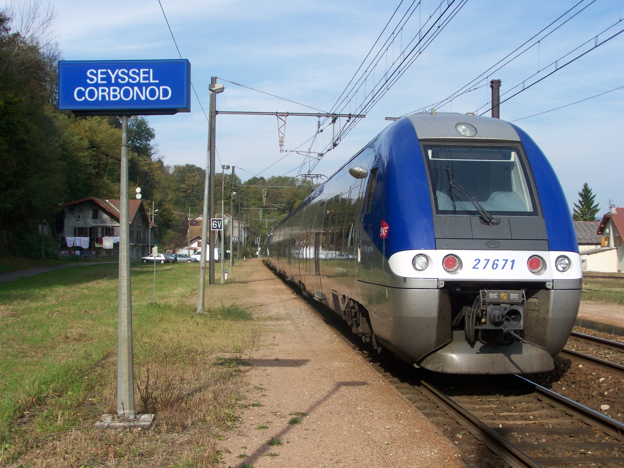 French regional train arriving from Lyon and moving towards Genève is leaving the station of Seyssel-Corbonod in the department of Ain.